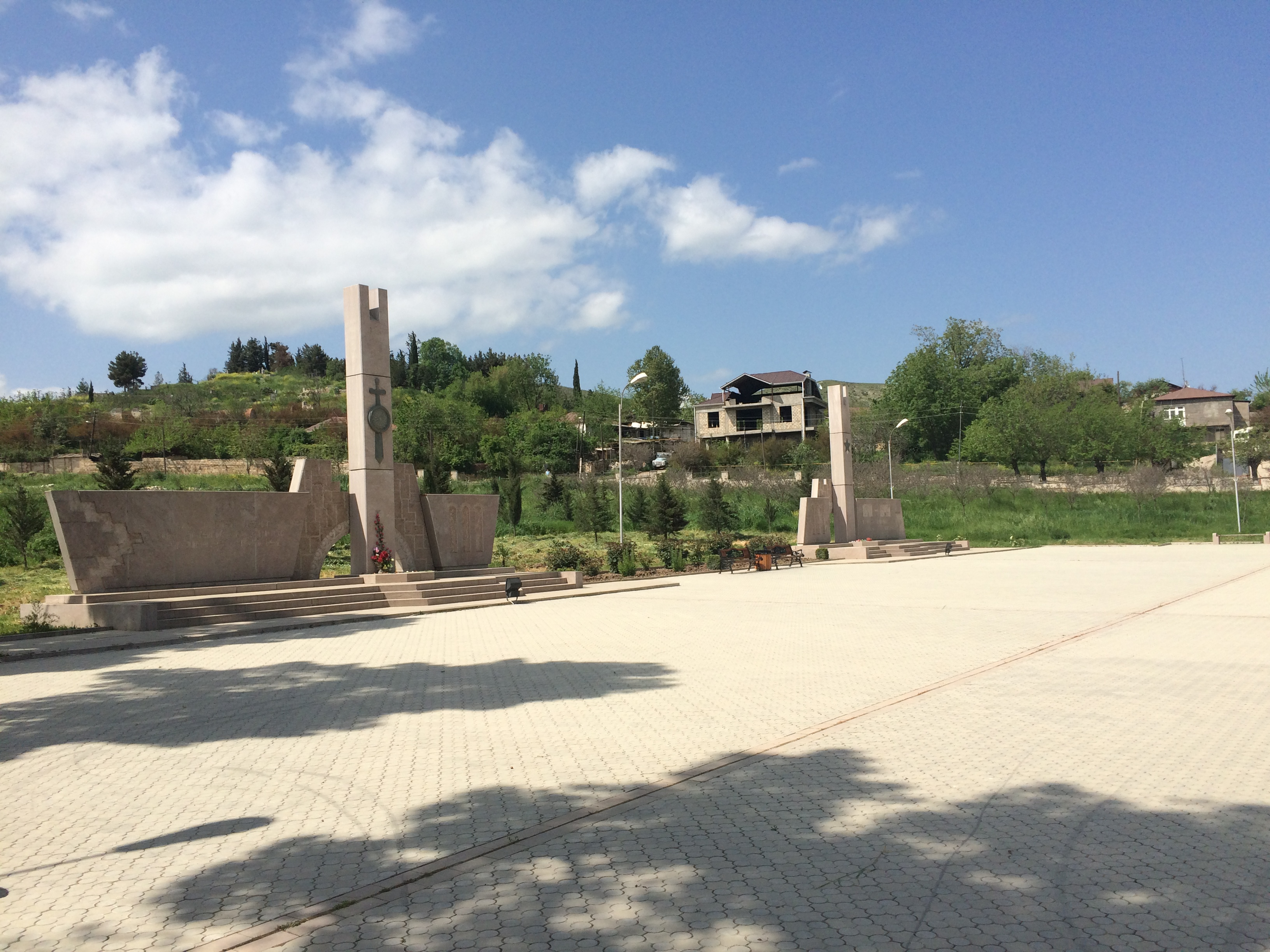 Town of Martuni, Nagorno Karabakh.